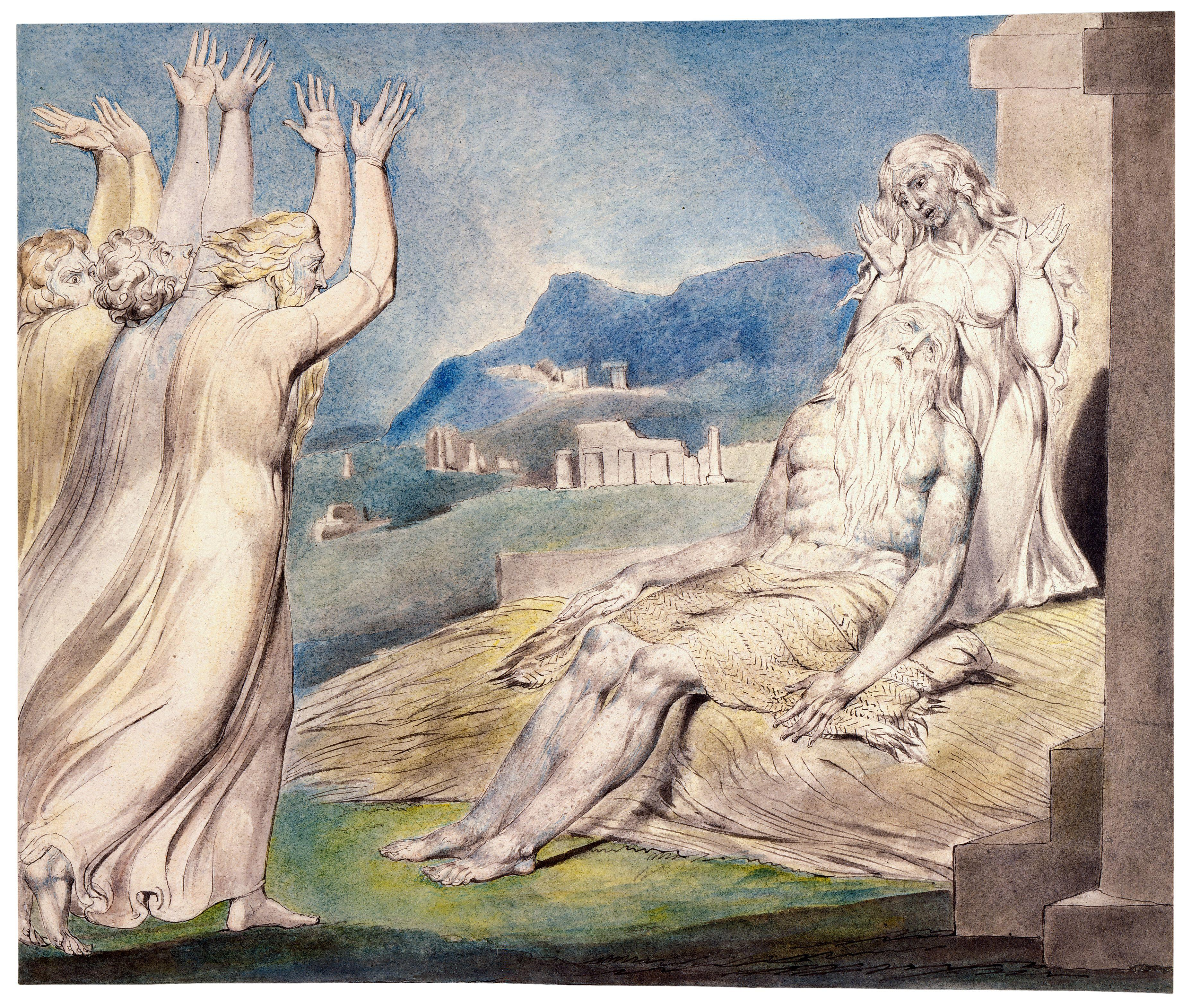 Job's Comforters, from the Butts set. Pen and black ink, gray wash, and watercolour, over traces of graphite